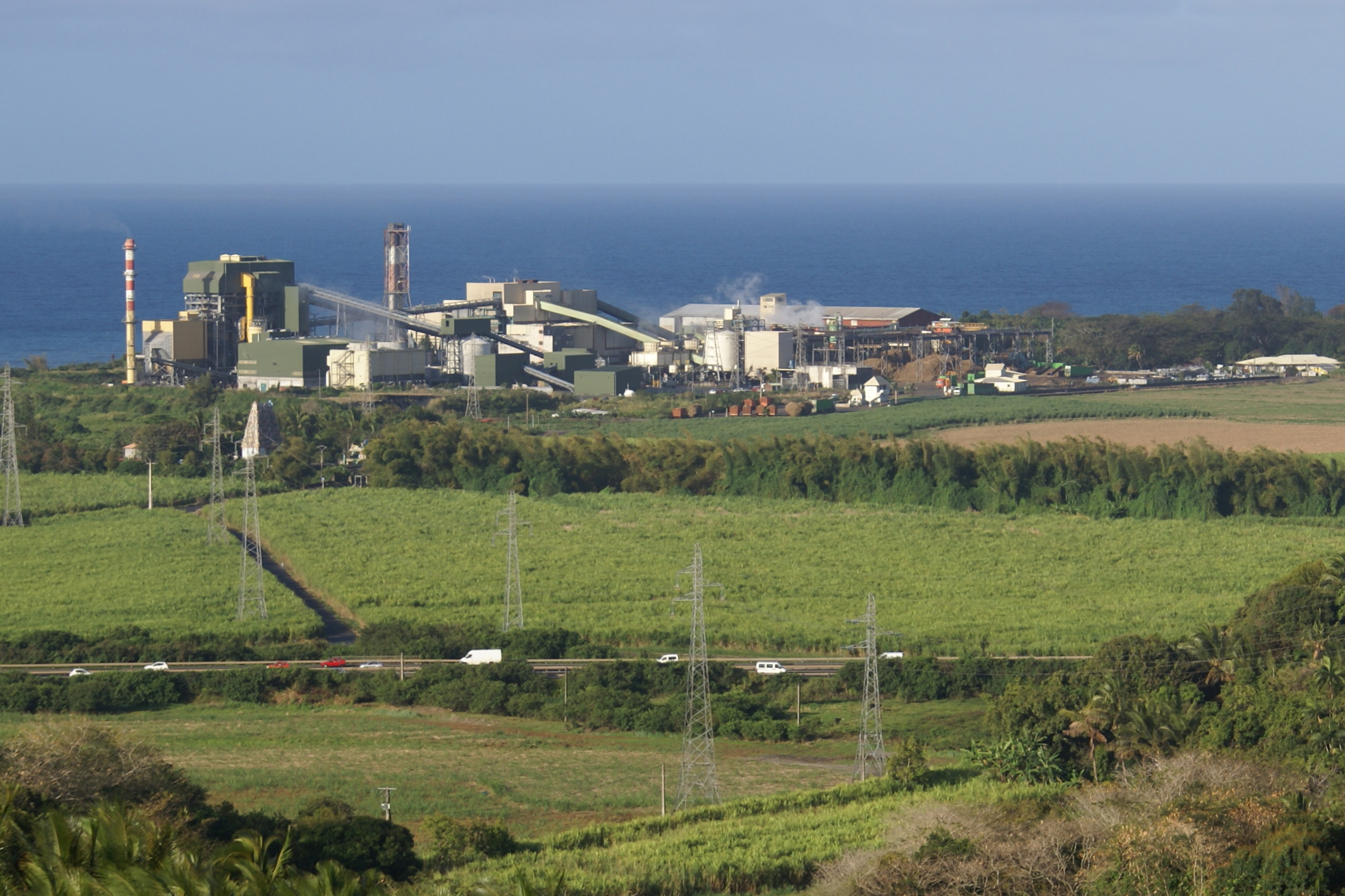 Sugar and power plant of Bois-Rouge (Réunion island)